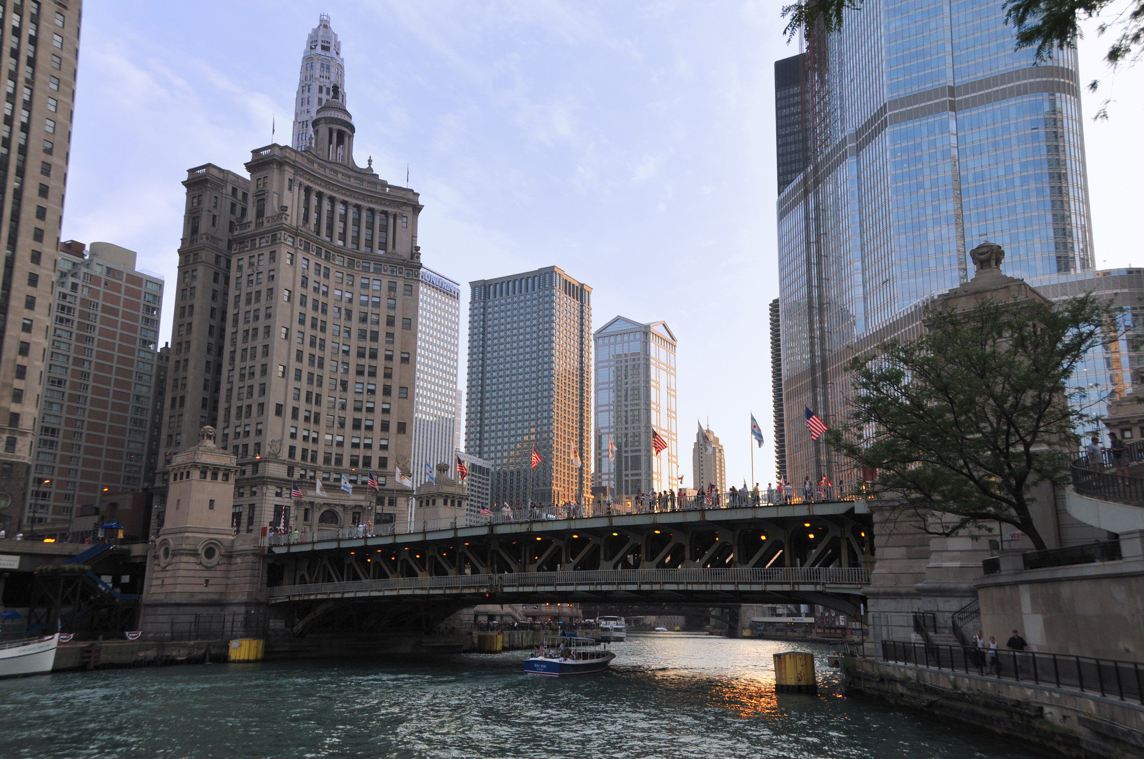 waiting in line to hop on a water taxi to go to Navy Pier